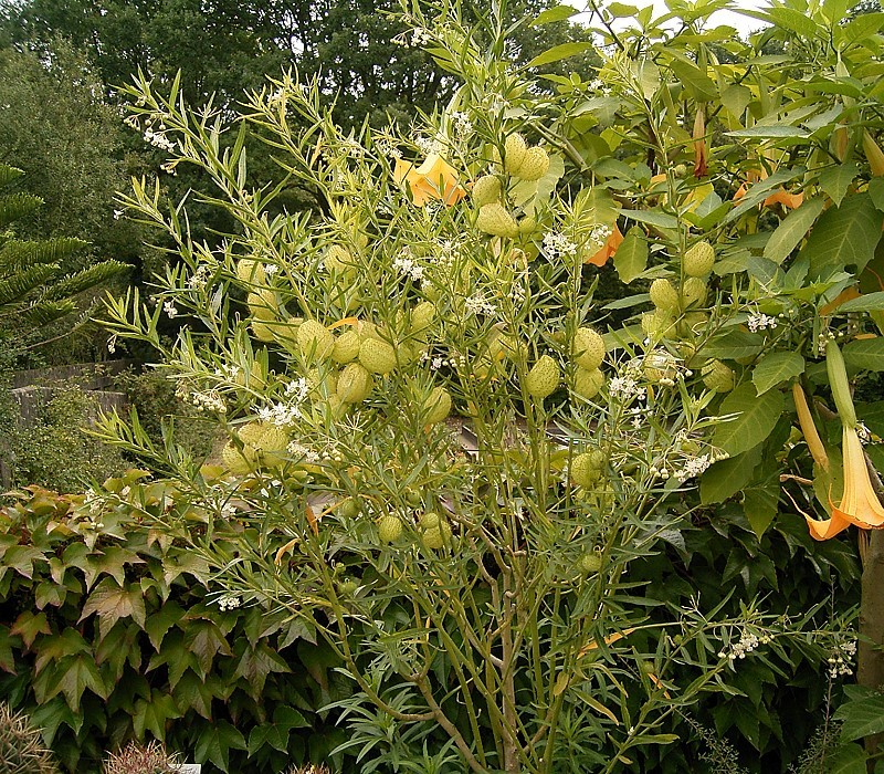 Gomphocarpus physocarpus